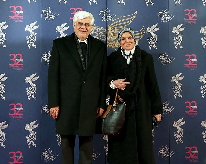 Mohammad Reza Aref and his spouse at Fajr Film Festival